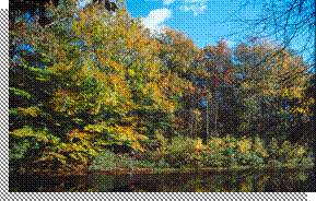 Pond at Webb Mountain Discovery Zone